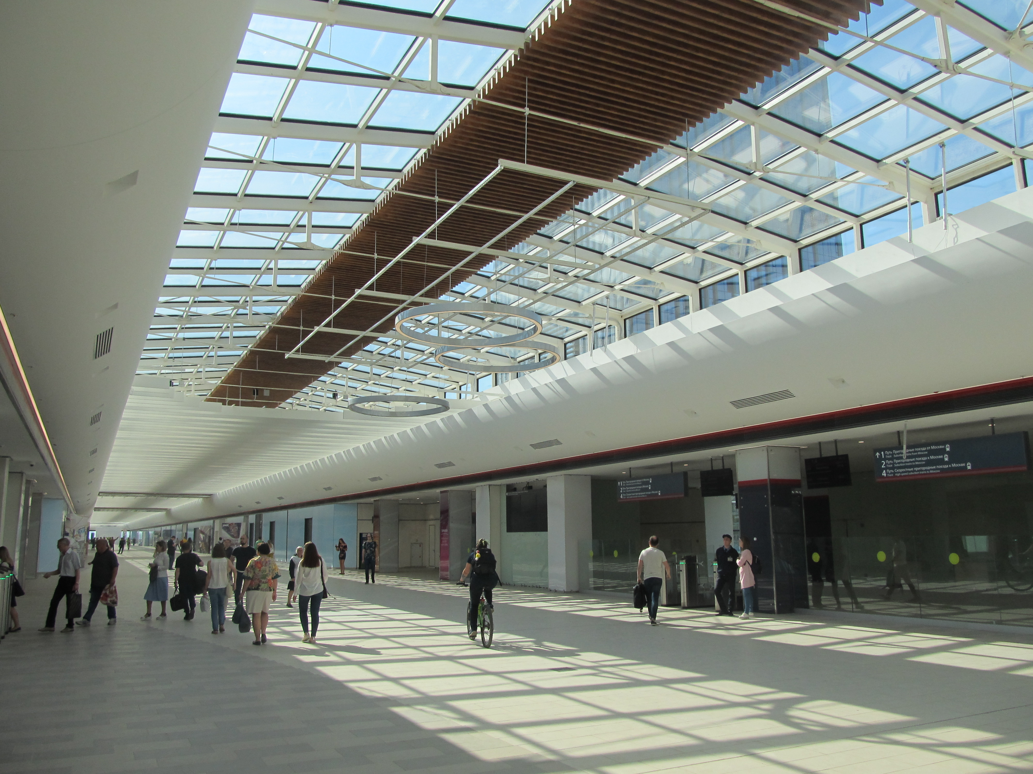 Long gallery of Skolkovo Innovation Centre railway platform